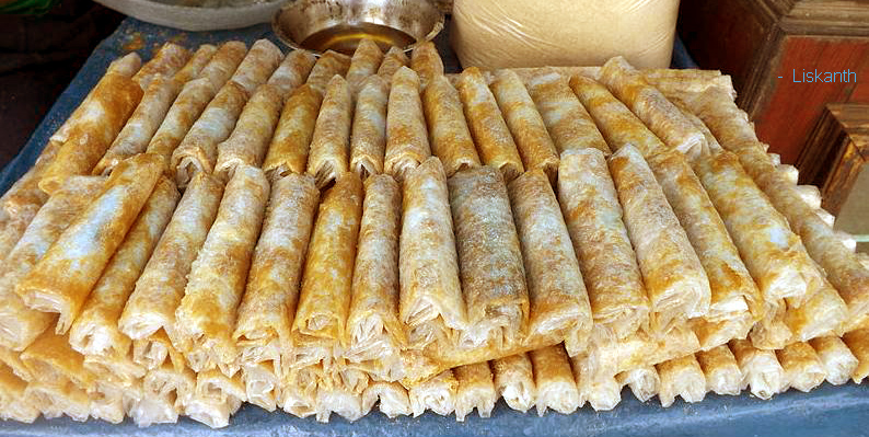 Pootharekulu made by sugar n wheat flour